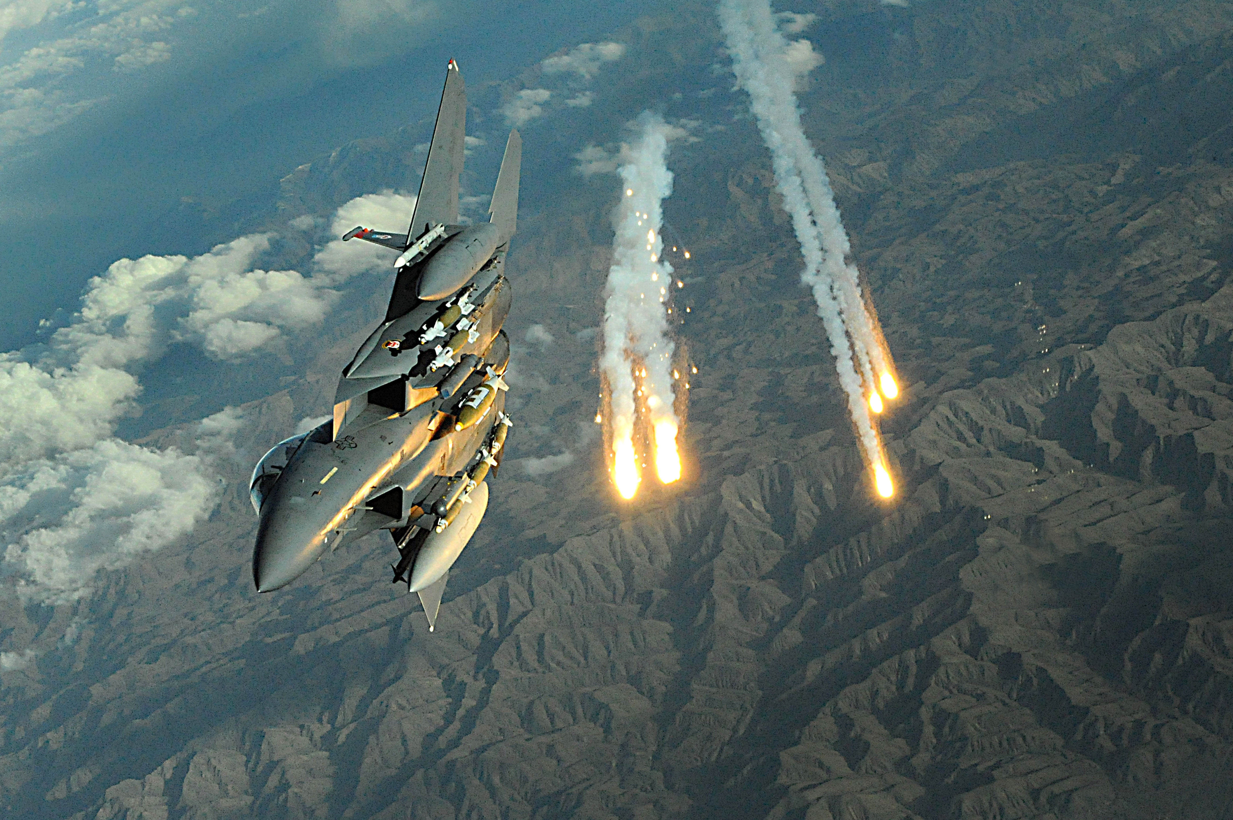 A U.S. Air Force F-15E Strike Eagle aircraft from the 391st Expeditionary Fighter Squadron deploys flares during a flight over Afghanistan on Nov. 12, 2008. The squadron is deployed to Bagram Air Base.